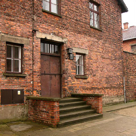 Several hundred women prisoners, mainly Jewish were held in two upstairs rooms of this block and used as human guinea-pigs for sterilization experiments conducted by Professor Dr Carl Clauberg, a German gynaecologist, from April 1943 to May 1944. Some of them died from the treatment they received, others were murdered so that autopsies could be performed on them. Those who survived were left with permanent injuries. Other SS doctors also conducted experiments on women in this block.